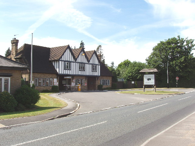 Entrance to Pinewood Film Studios, Iver Heath. Pinewood Shepperton Studios say they have "two hundred acres, with formal gardens, fields, woodlands, an orchard and two country houses within our grounds".